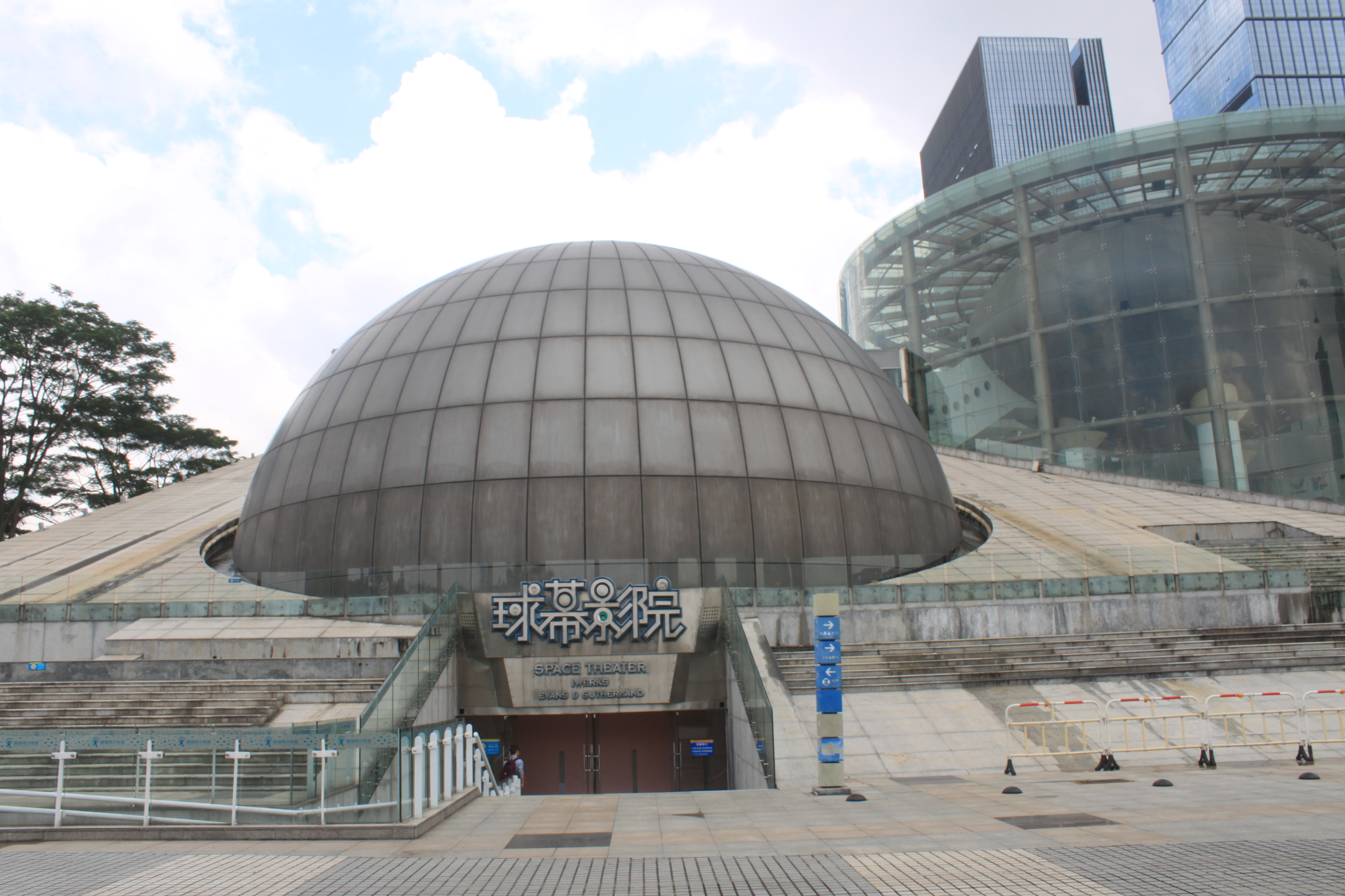 Shenzhen City Children's Palace is a public facility in Futian District, Shenzhen, Guangdong where children are engaged in extra-curricular activities, such as learning music, foreign languages, computing skills and doing sports.